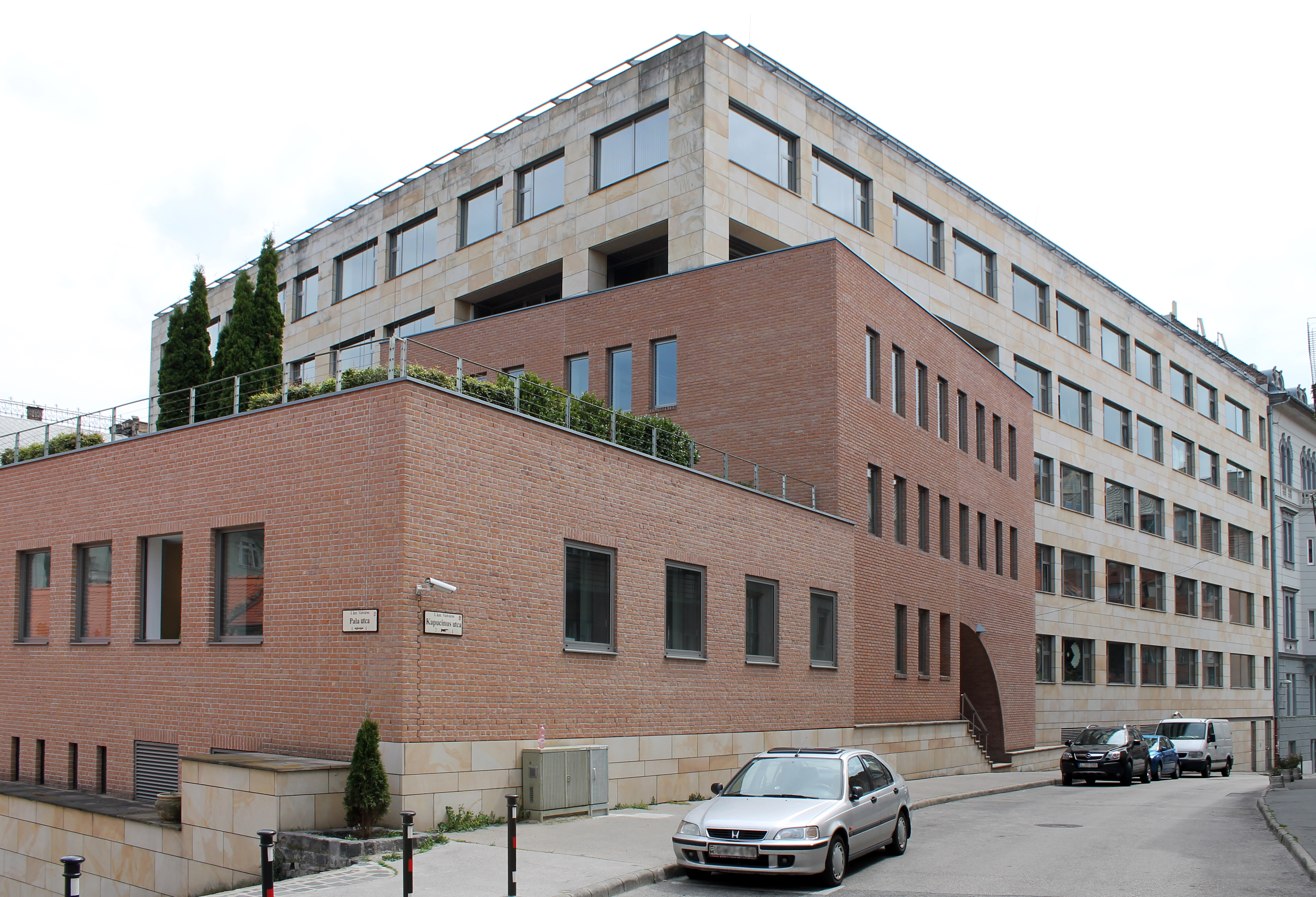 Palaház office building at Fő utca, Budapest. Designed by Zsófia Csomay and György Nagy, built in 2005.